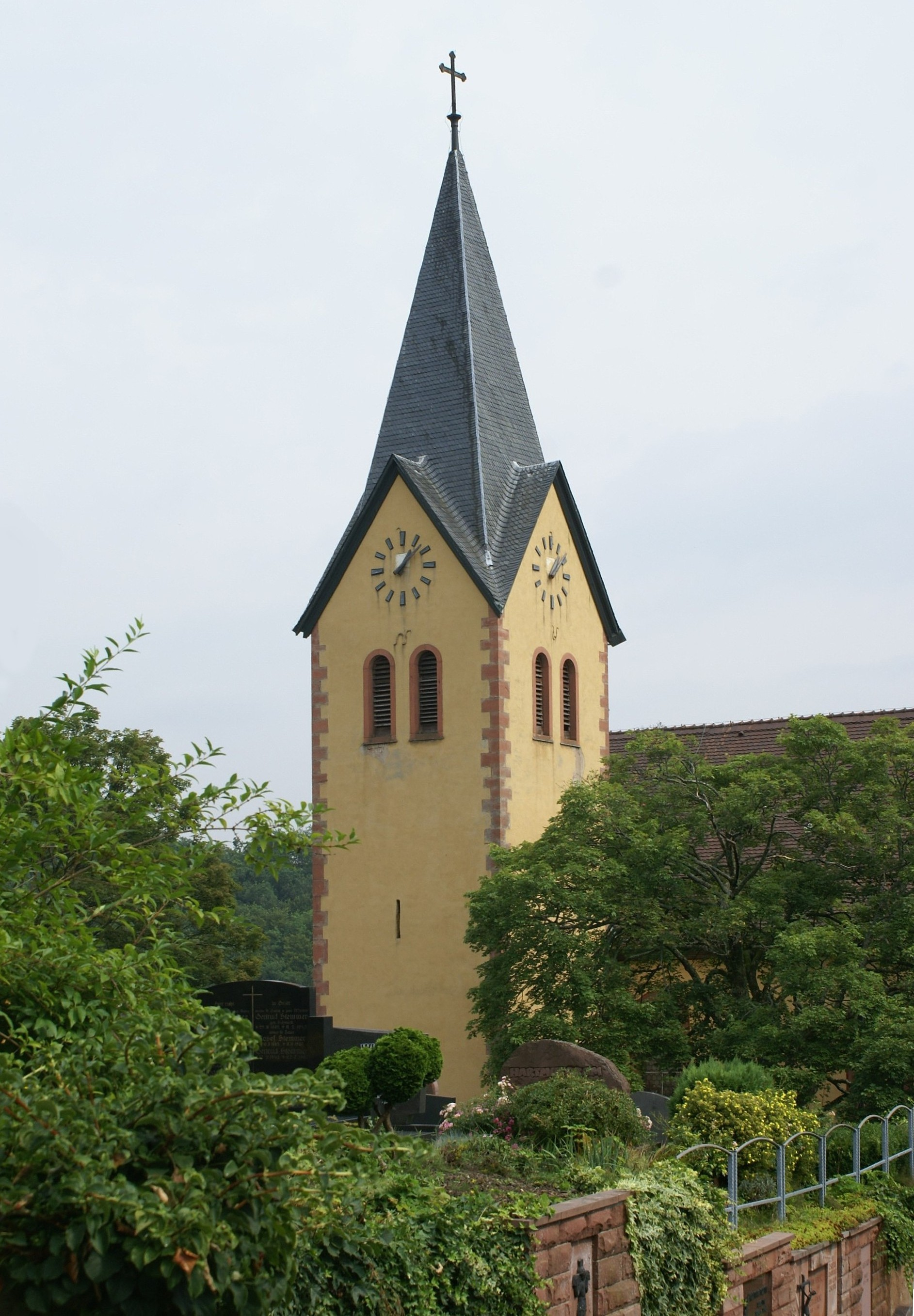 The belltower of the catholic church in Krombach harmonizes perfectly with the surroundings